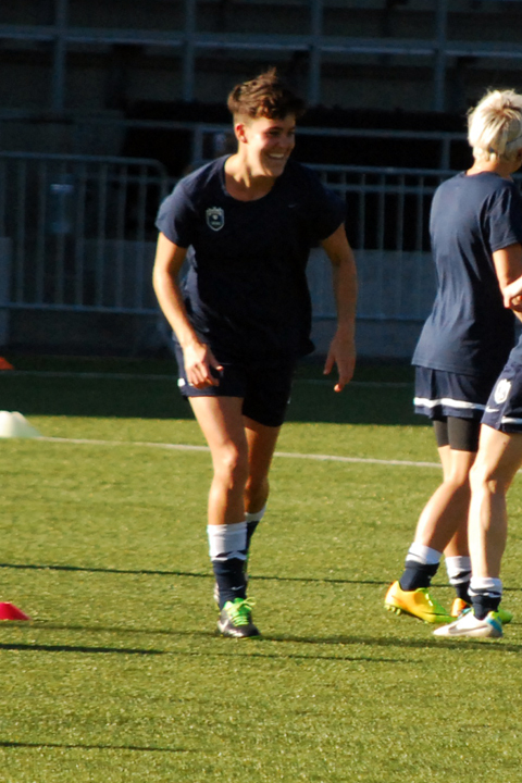 Keelin Winters prepares for a match against the Chicago Red Stars on July 25, 2013 at Starfire Stadium in Tukwila, Washington.